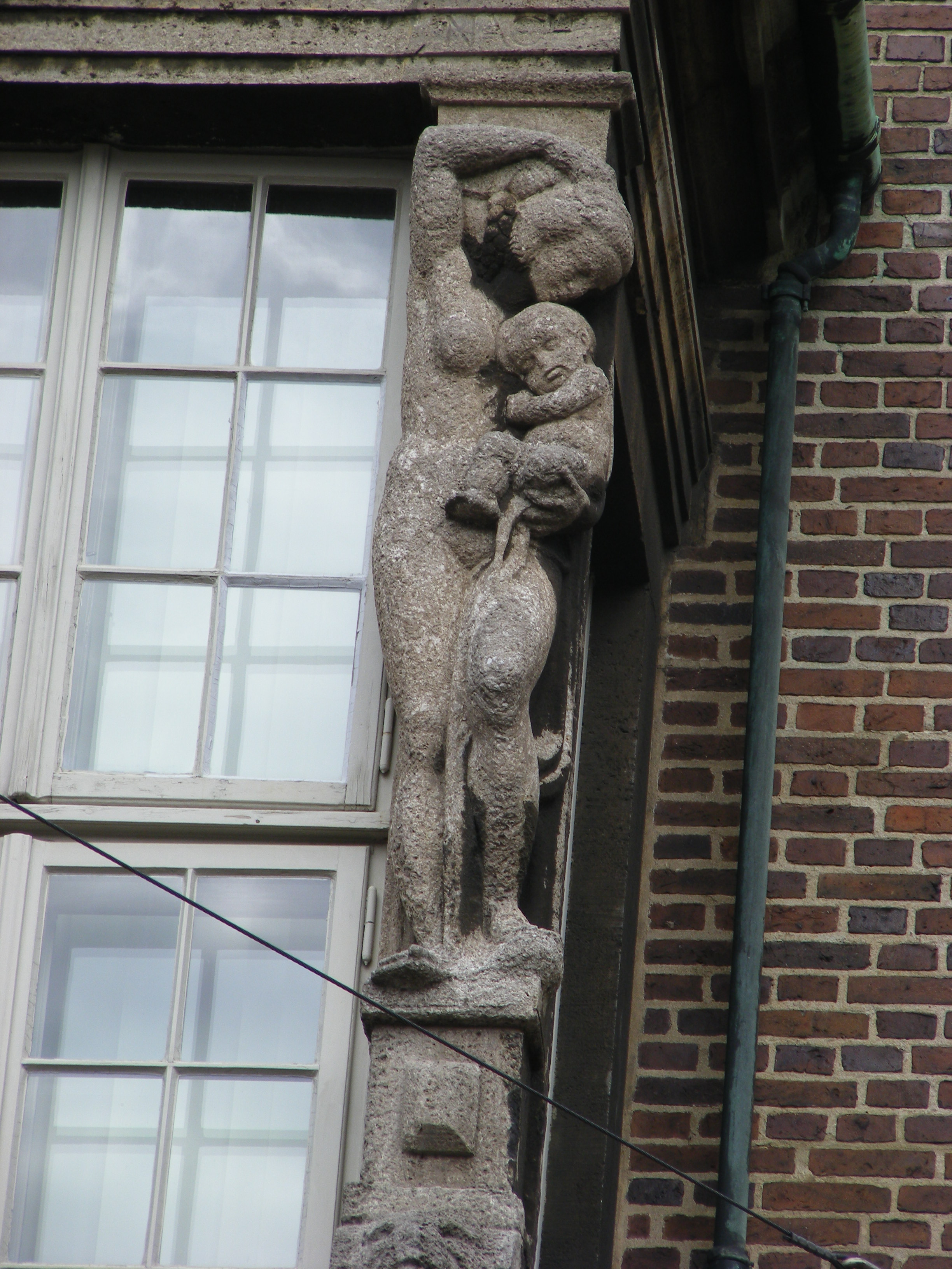 Bremen: expressionist sculpture on the bay window of "Bürgermeistererker" of the Neorenaissance New Townhall